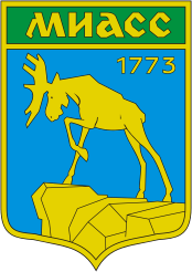 Miass (Chelaybinsk oblast), coat of arms (1992)